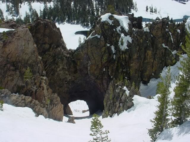 Mammoth Mountain Ski Area's out of bounds hole in the wall.